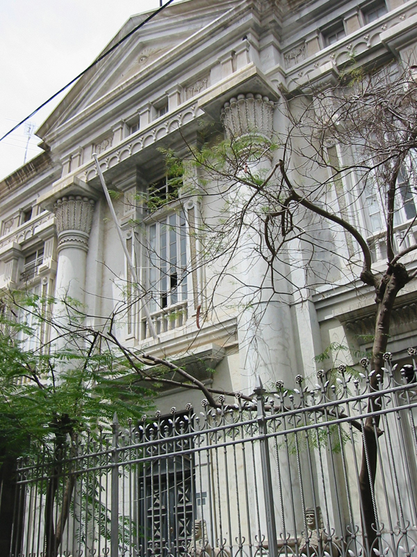 Mason temple in Santa Cruz, Tenerife. Unique in his kind in Spain, after the Civil War of 1937-39 was requisitioned by the Army, till late 90's. Now, back to the city counciol, is waiting for a restoration.